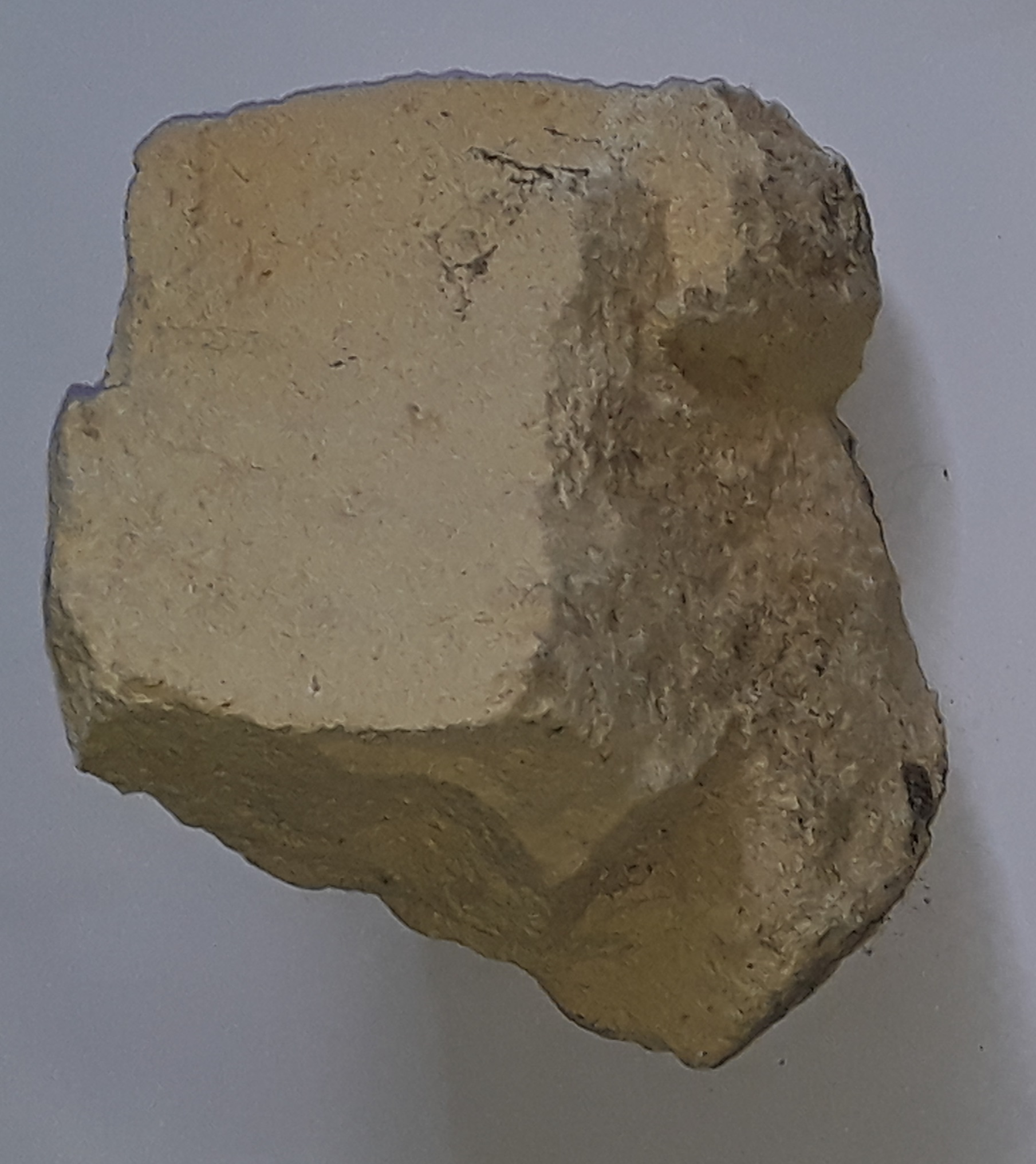 Rock sample 8 Ignimbrite Guna Mika'el